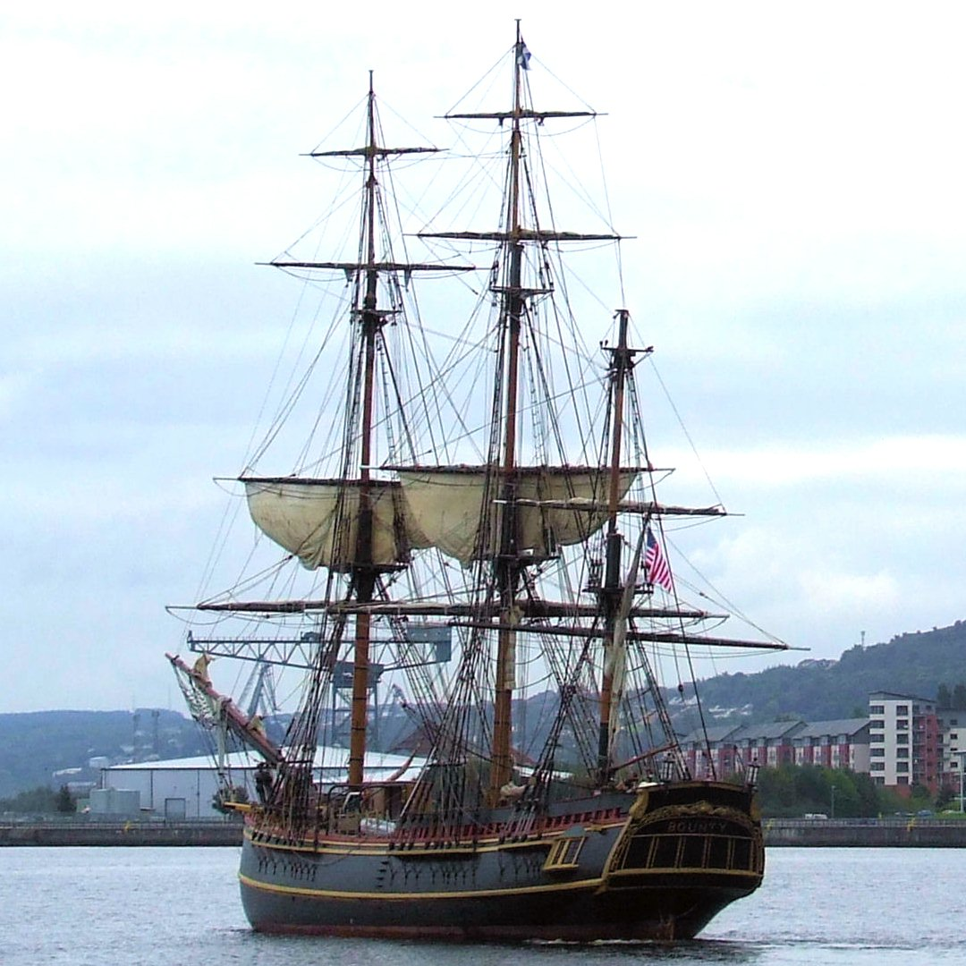 HMS Bounty leaving Greenock on the River Clyde